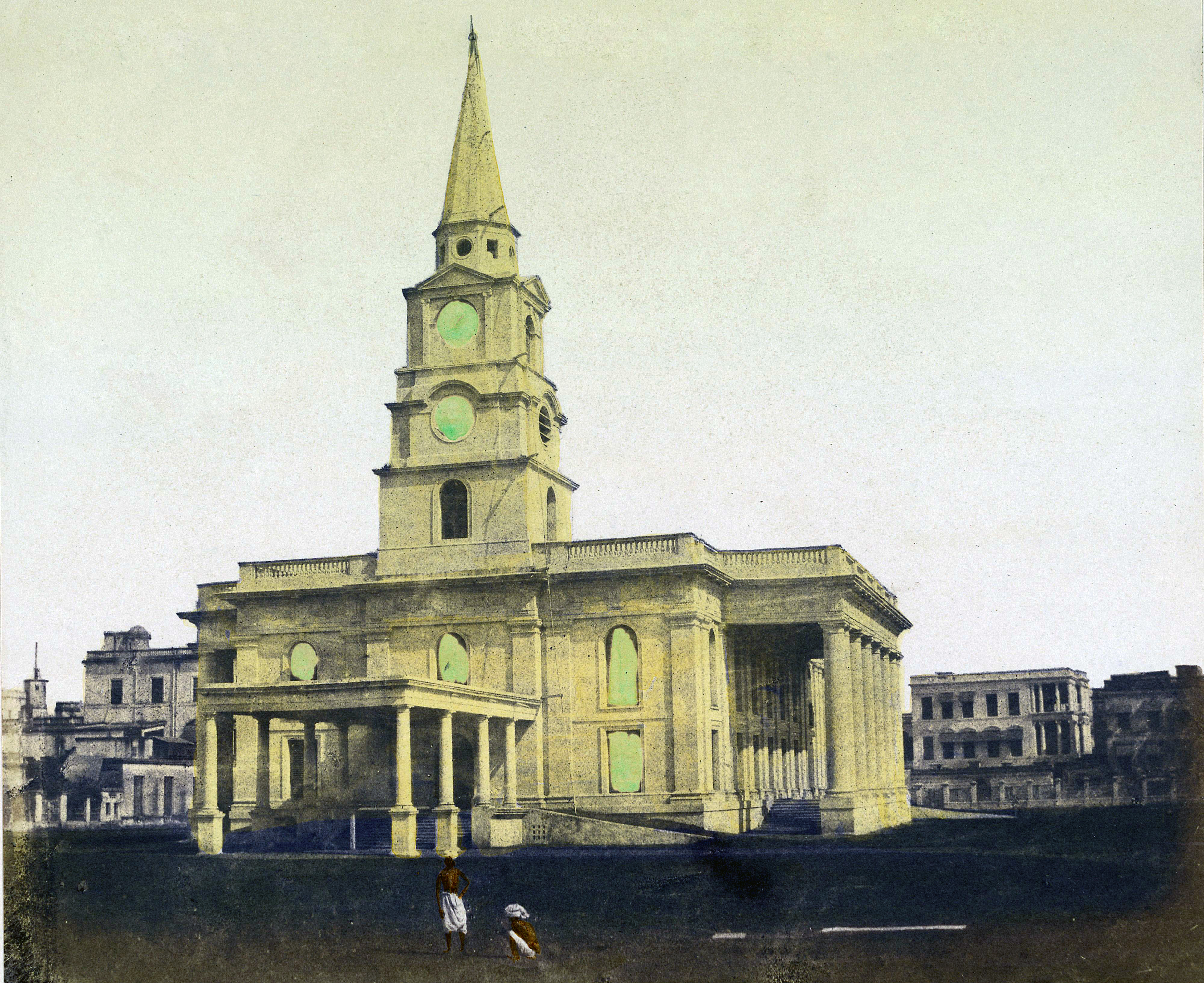 "St John's Cathedral, Calcutta," hand-coloured photographic print by Frederick Fiebig, dated 1851. Courtesy of the British Library, London.